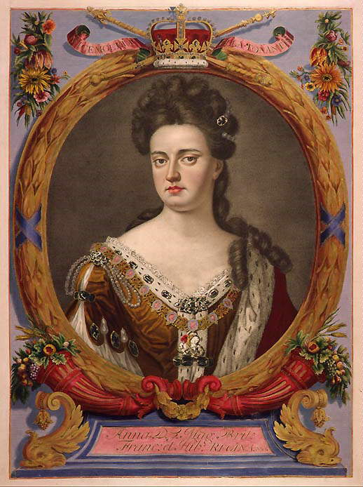 Portrait of Queen Anne of England, in a tinted engraving from an atlas commissioned by Augustus the Strong (Duke of Saxony), 1706-1710.